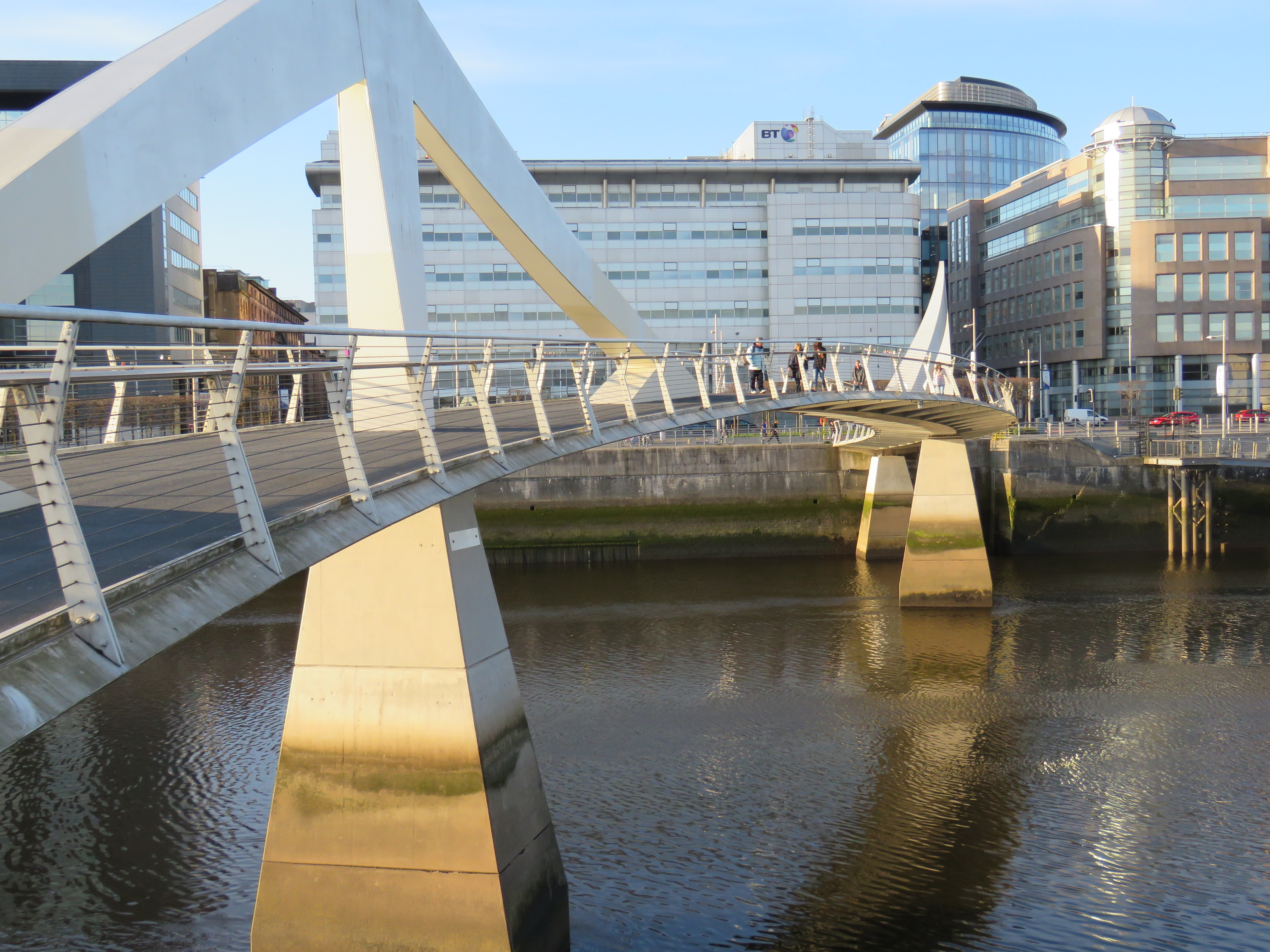 Tradeston pedestrian bridge over the River Clyde, Glasgow